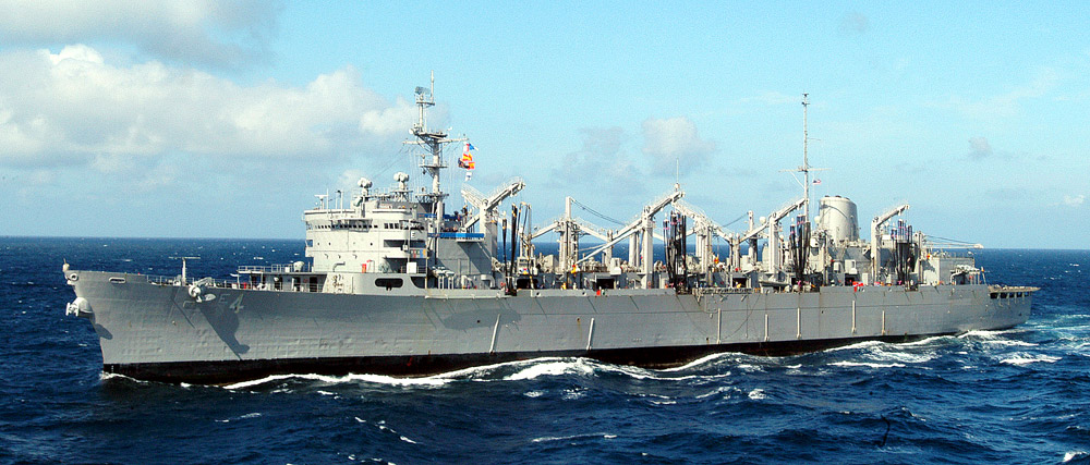 040701-N-5952R-083 North Sea (1 July 2004) - The fast combat support ship USS Detroit breaks away following an underway replenishment with USS Enterprise. Enterprise is one of seven aircraft carriers participating in Summer Pulse 2004. Summer Pulse 2004 is the simultaneous deployment of seven aircraft carrier strike groups (CSGs), demonstrating the ability of the United States Navy to provide credible combat power across the globe, in five theaters with other U.S., allied, and coalition military forces. Summer Pulse is the Navy's first deployment under its new Fleet Response Plan (FRP).